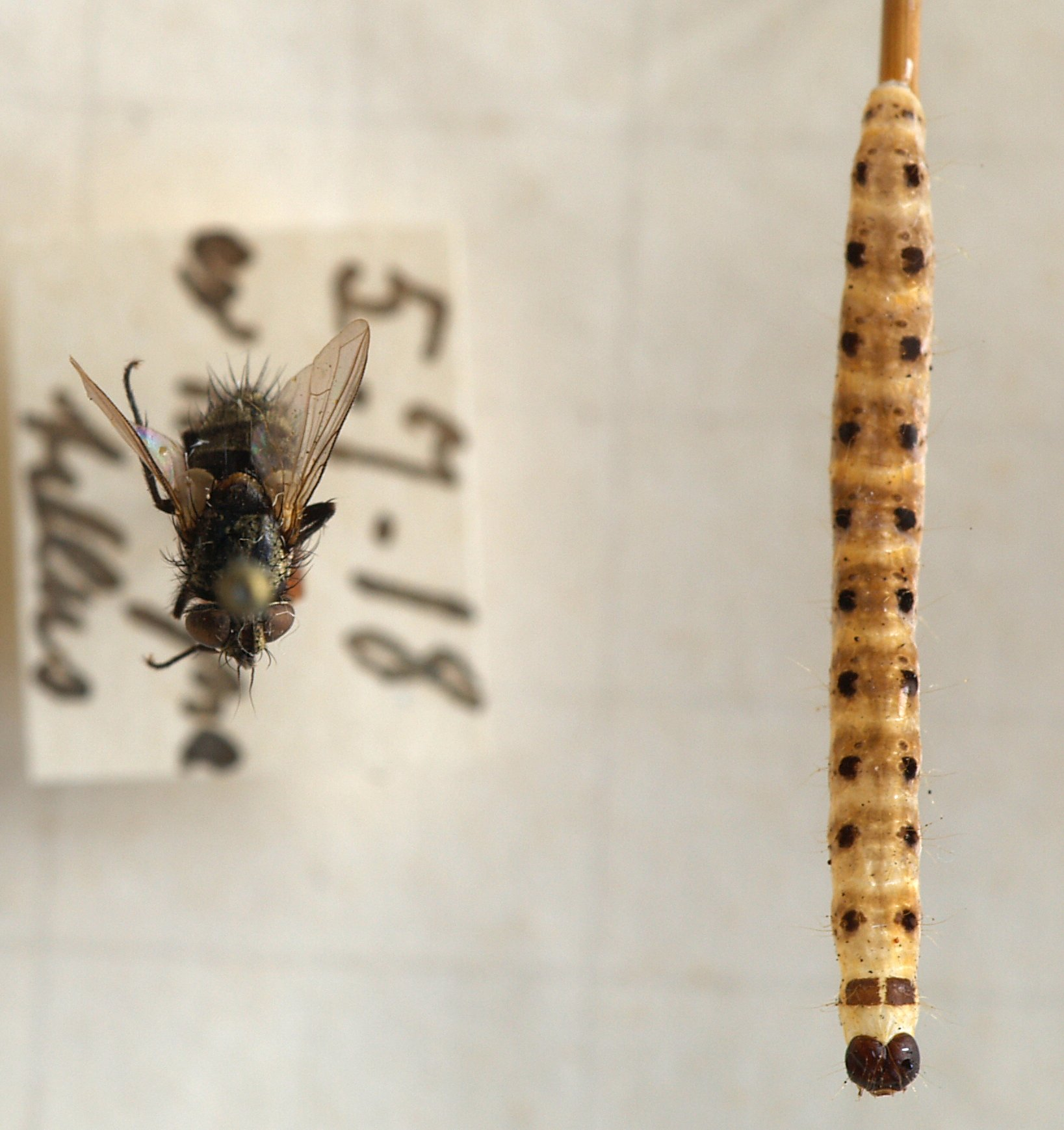 Tachinid fly, hatched from Yponomeuta cognagella